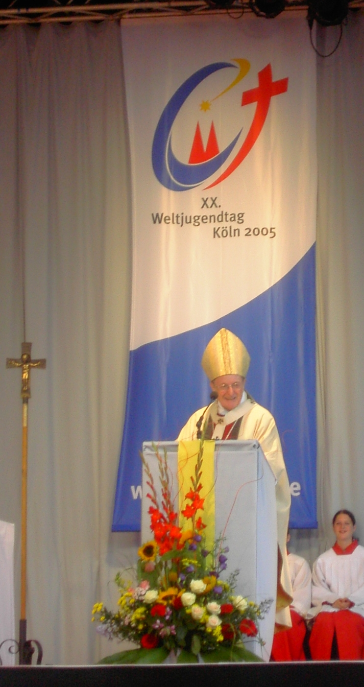 Cologne's cardinal Joachim Meisner. Photo taken at the volunteer mess, WJD 2005.